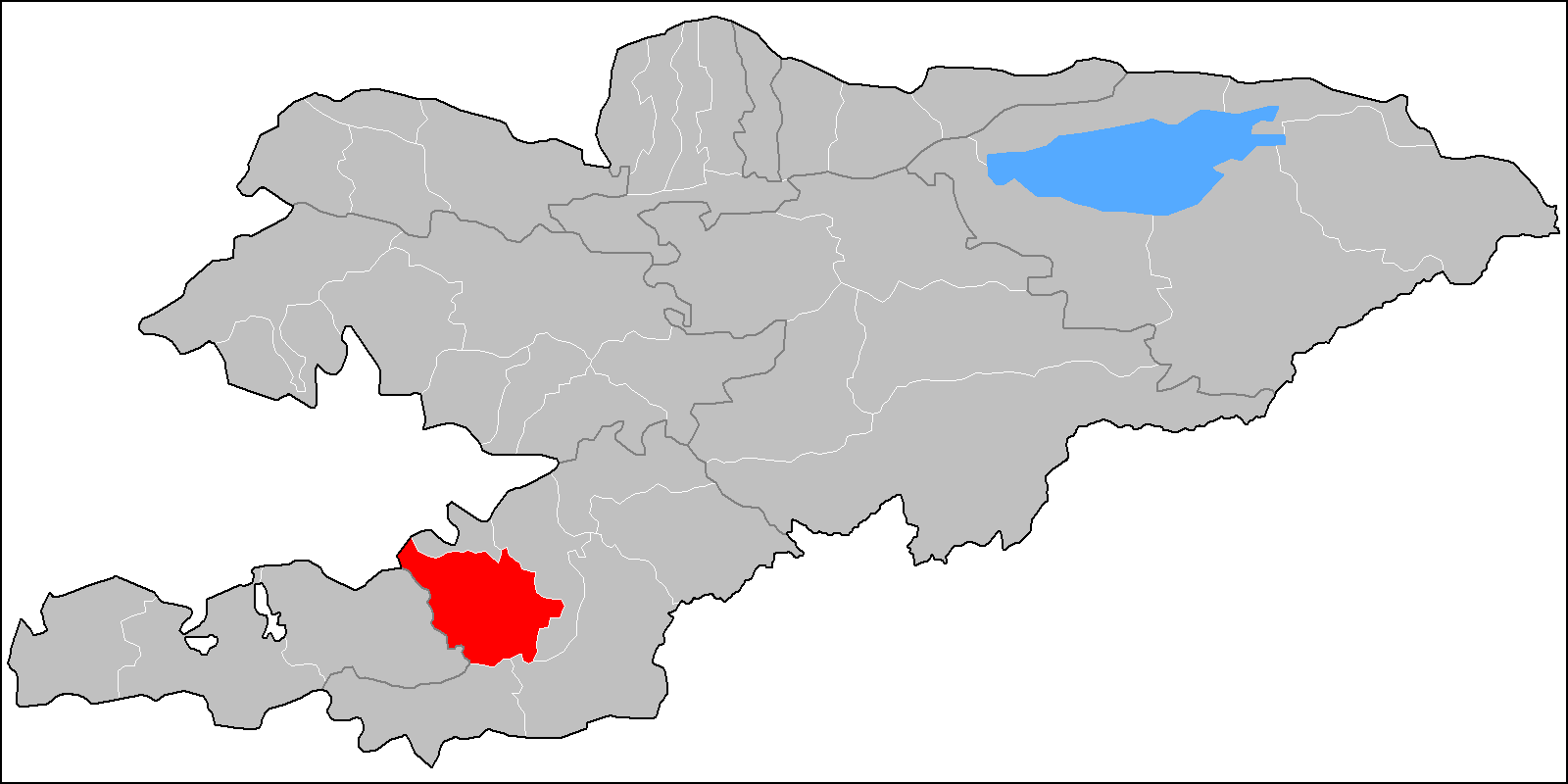 The location of the raion (district) of Nookat in Kyrgyzstan. Based on Image:Kyrgyzstan raions.png